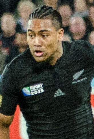 Game between New Zealand and Namibia in the 2015 Rugby World Cup at Olympic Park.